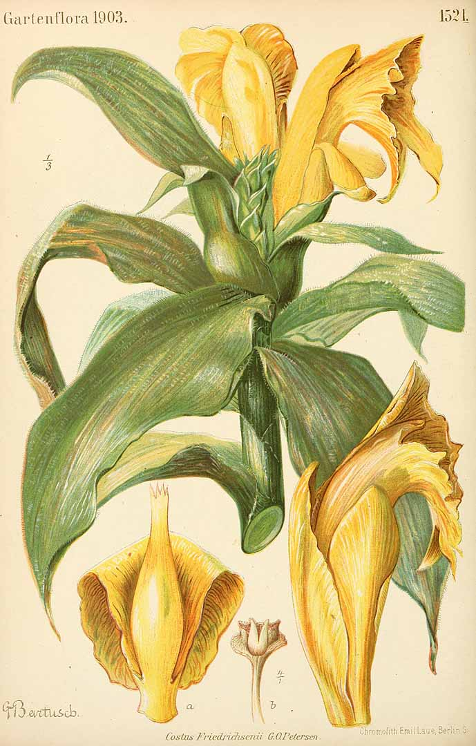 Costus villosissimus Jacq. [as Costus friedrichsenii Petersen] Gartenflora [E. von Regel], vol. 52: t. 1521 (1903) [G. Bartusch]